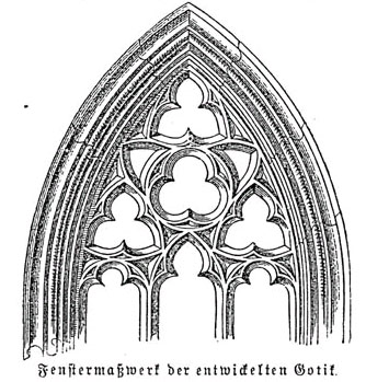 A Gothic pointed arch tracery window, in an 19th century German drawing.